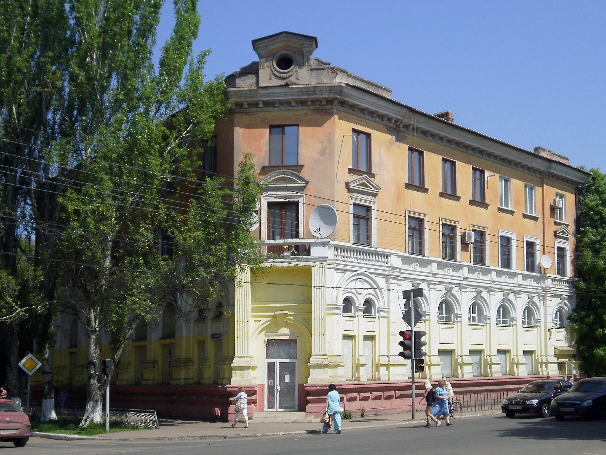 Former City Bank in Sloviansk, Donetsk Oblast, Ukraine